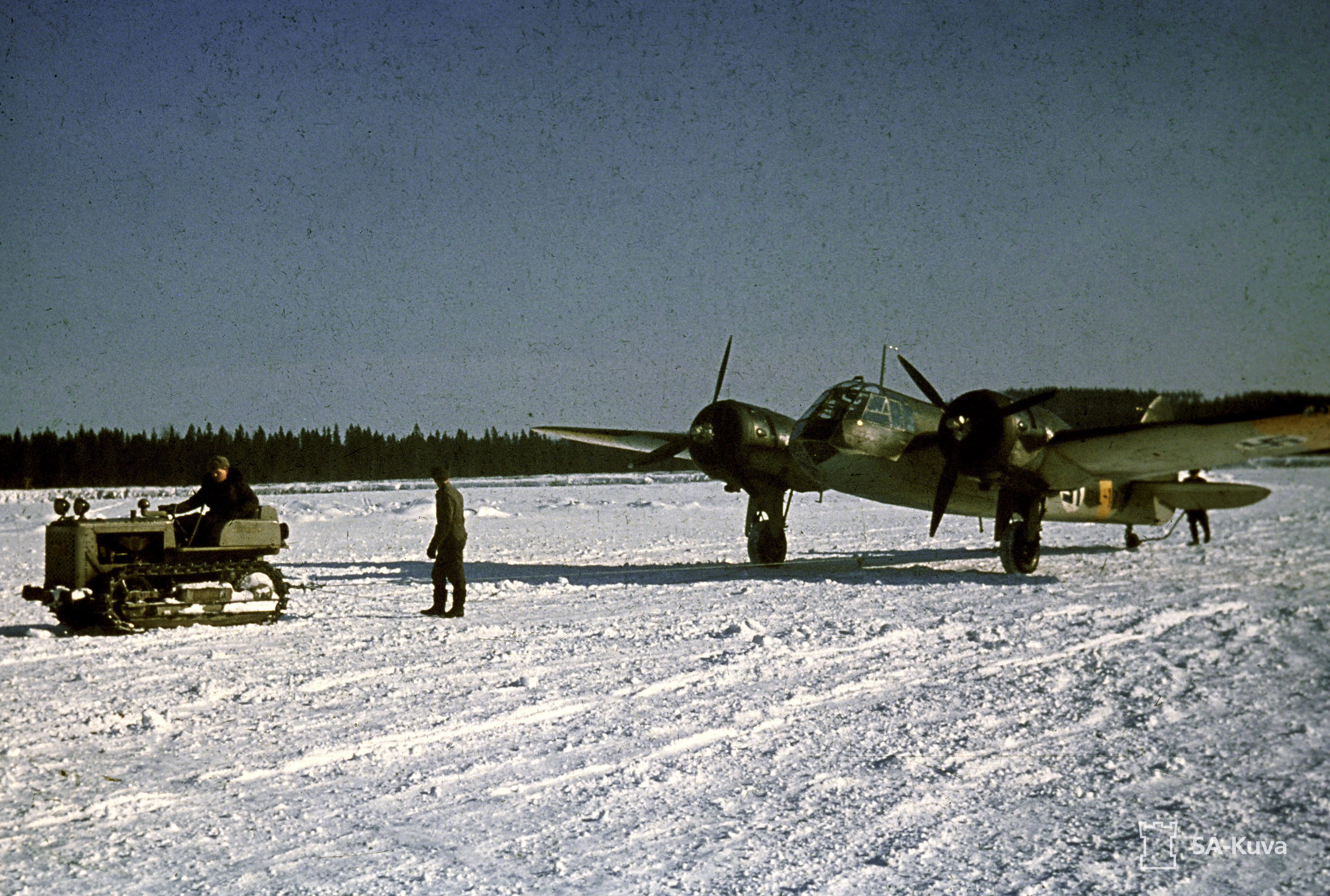 Bl-konetta (Bristol Blenheim) hinataan traktorilla paikalleen. Täydennyslentolaivue 17. Kuvattu ajalla 28.-31.3.1944.